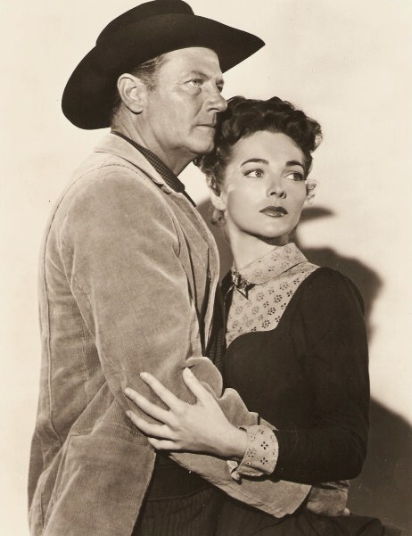 Joel McCrea & Joan Weldon in Gunsight Ridge - publicity still (cropped)